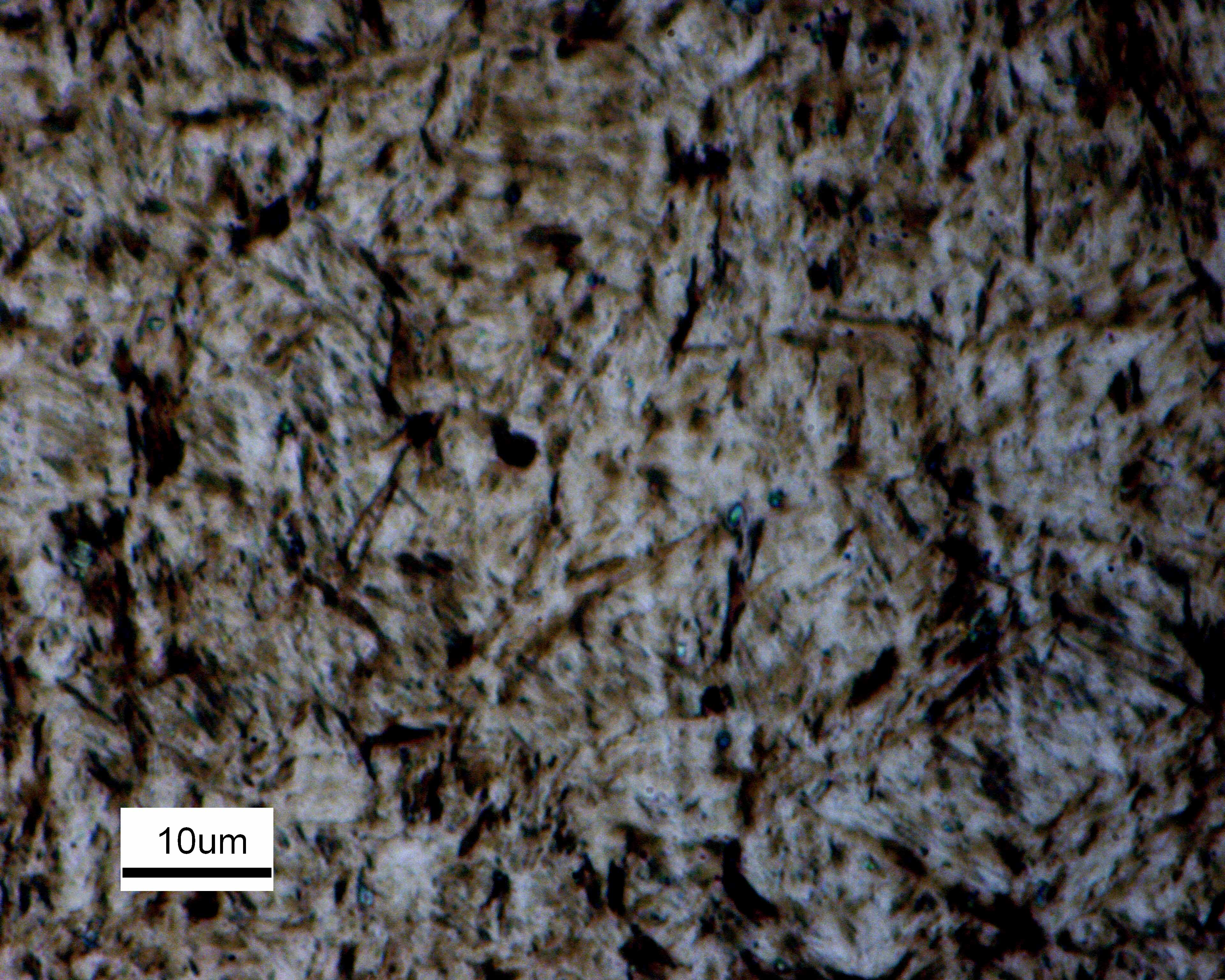 Martensite in optical microscope. Taken in the course of my engineering career at The University of Texas at Austin. AISI 4140 steel austenitized at 850 degrees Celsius and then oil-quenched to room temperature.